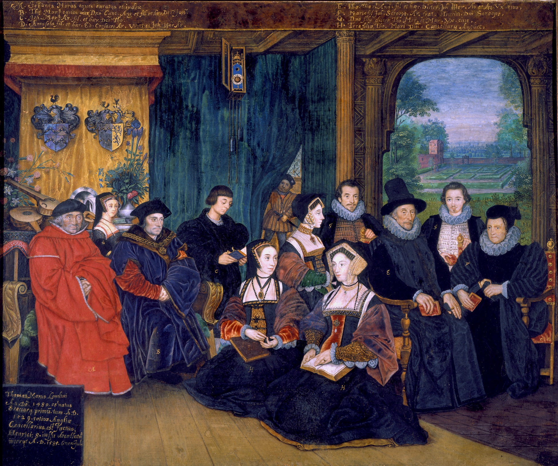 Sir Thomas More, his father, his household and his descendants. Watercolor miniature by Rowland Lockey, in the Victoria & Albert Museum. by Rowland Lockey, after Hans Holbein the Younger